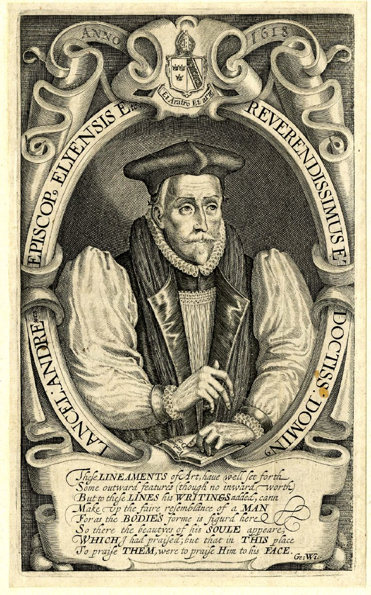 Portrait of Lancelot Andrewes, Bishop of Winchester, engraving, by the British engraver Simon van de Passe. 180 mm x 107 mm. Courtesy of the British Museum, London.